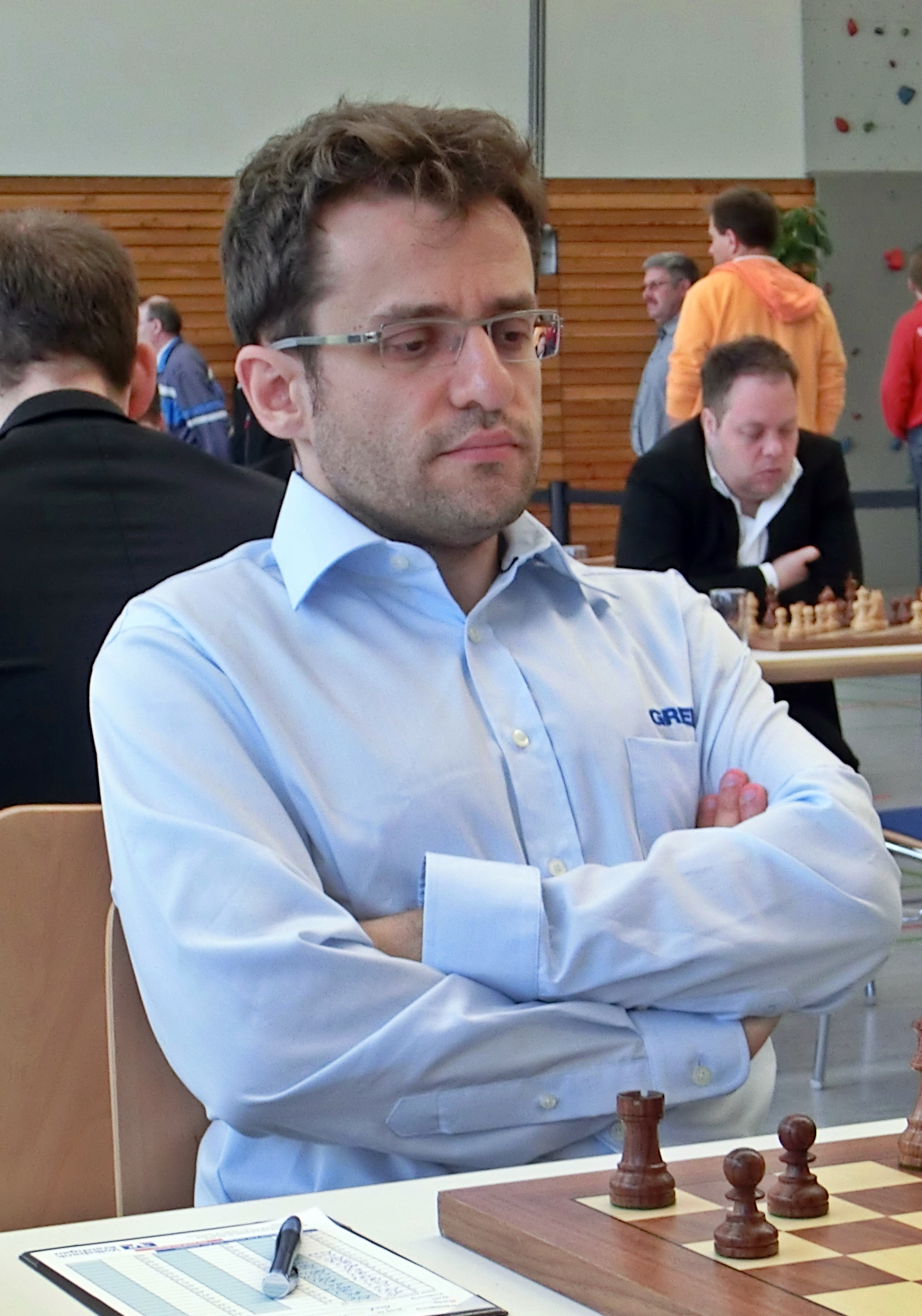 Levon Aronian, chess grandmaster from Armenia